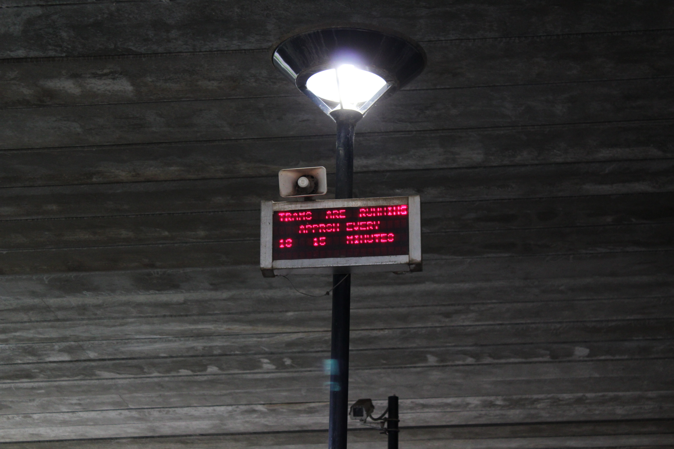 Metro Light Rail indicator board